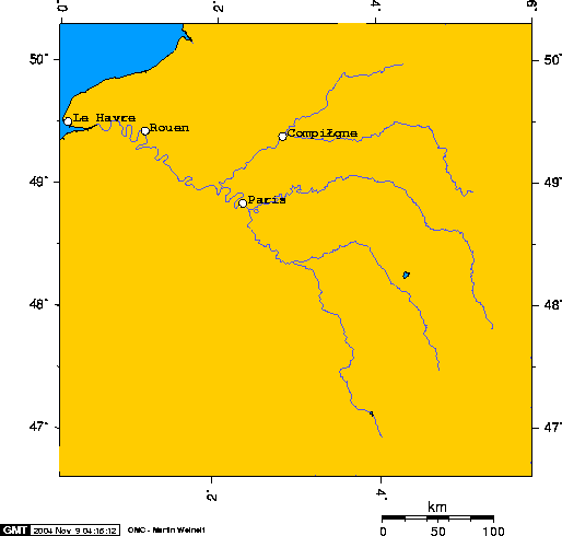 Seine river watershed